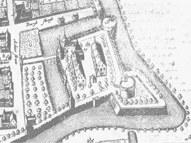 The castle of Wageningen (Netherlands)